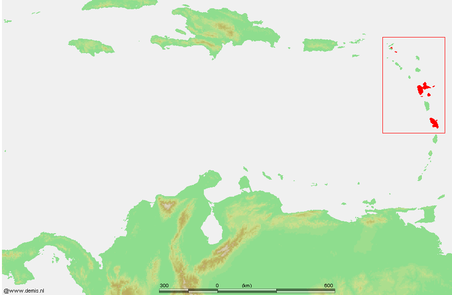 Caribbean - French West Indies.PNG